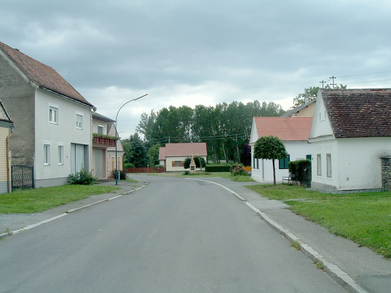 Oberbildein (Felsőbeled), Bildein, Burgenland